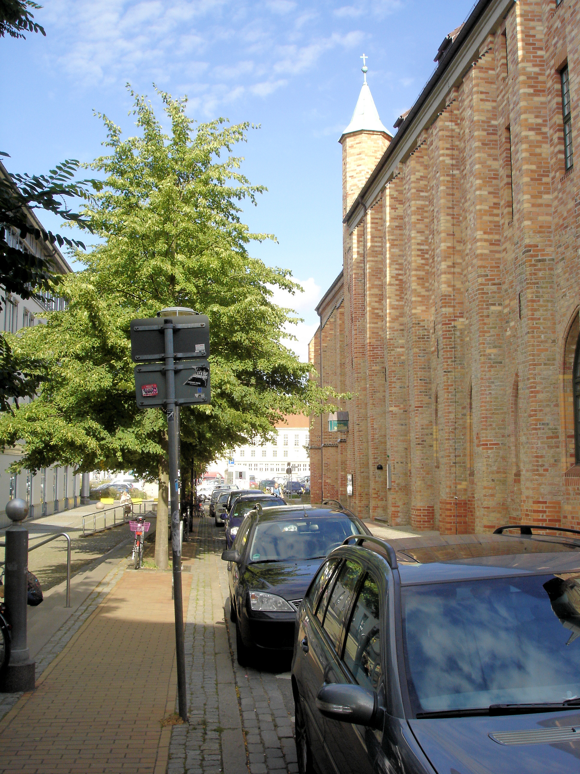 Street in the historic city of Rostock